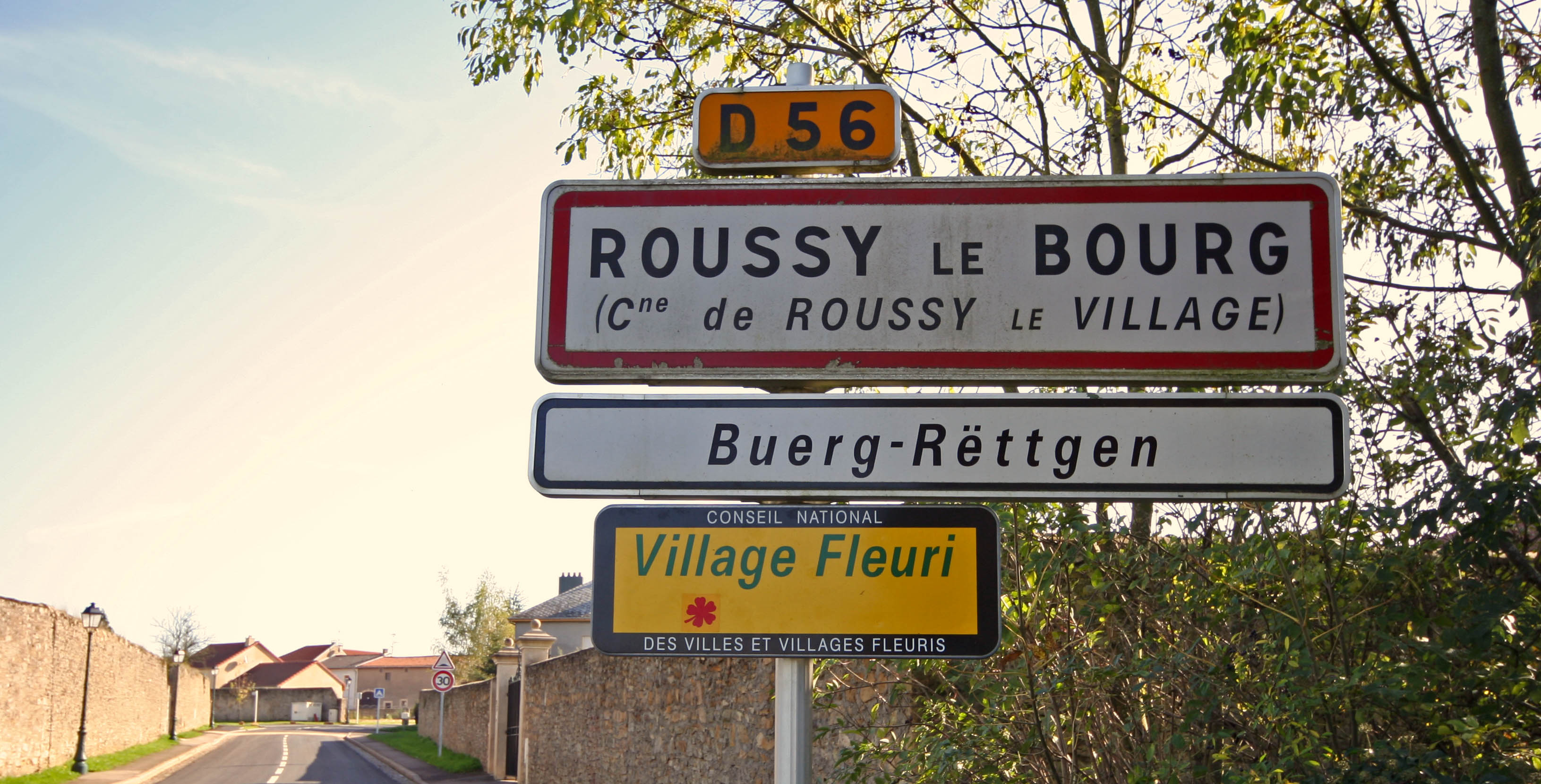 Town entry Roussy-le-Bourg (France)